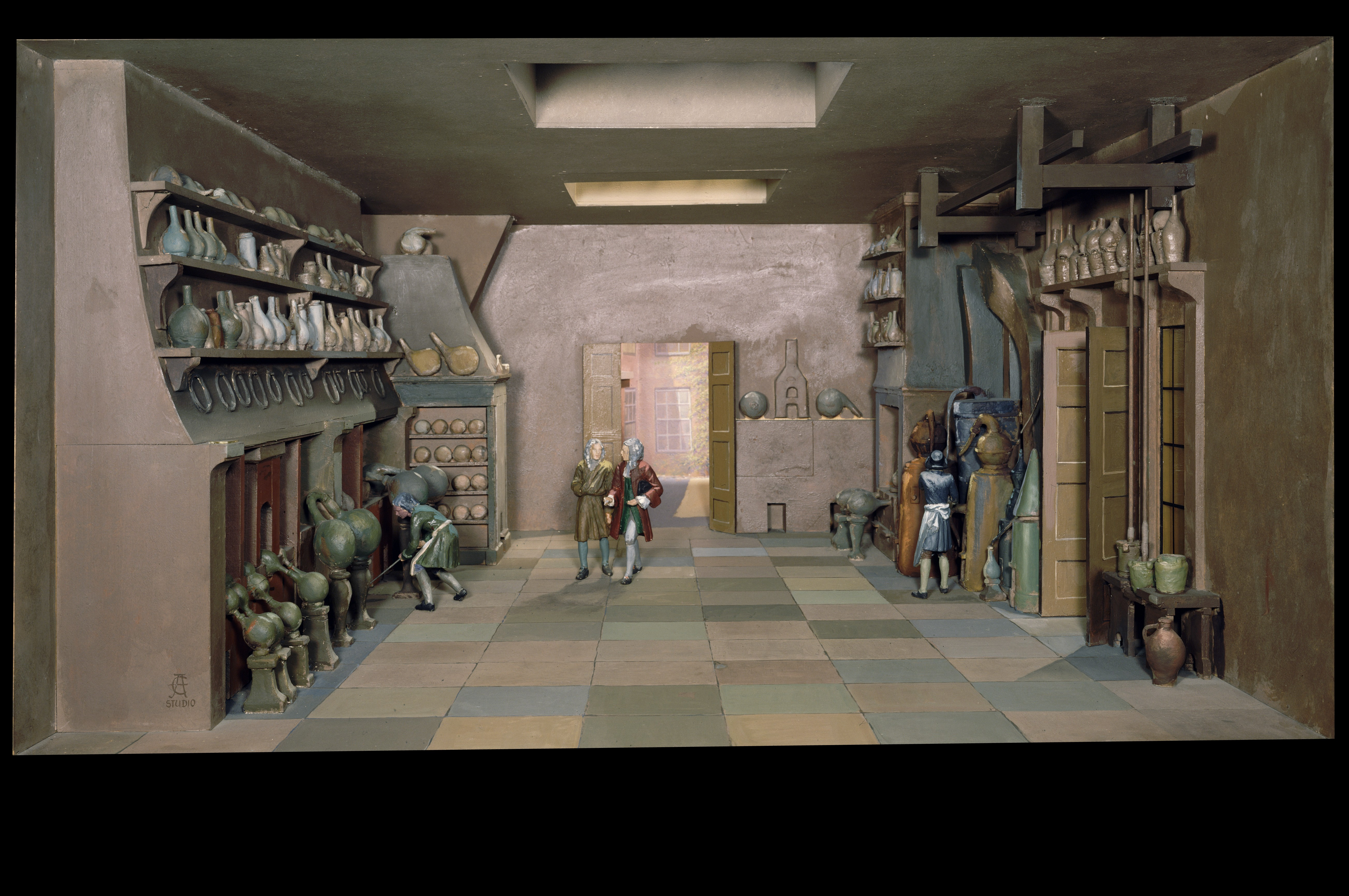 Ambrose Godfrey Hanckwitz (1660-1741), a German chemist, set up a drug making laboratory (much like the one in this diorama) in London, 1680. Large furnaces and chemical equipment line the room. Ambrose Godfrey, as he became known, was an assistant to Robert Boyle (1627-1691), an Irish chemist. After Boyle discovered a way of making solid phosphorous in 1680, Godfrey made this the basis of his drug manufacturing business and held the monopoly over this ingredient for forty years. Godfrey’s business went on to become Godfrey & Cooke, a firm of chemists still in business at the beginning of the 1900s. Godfrey also researched spa waters, which were believed to have curative properties. Maker: Unknown maker Place made: England, United Kingdom Wellcome Images Keywords: spa; diorama